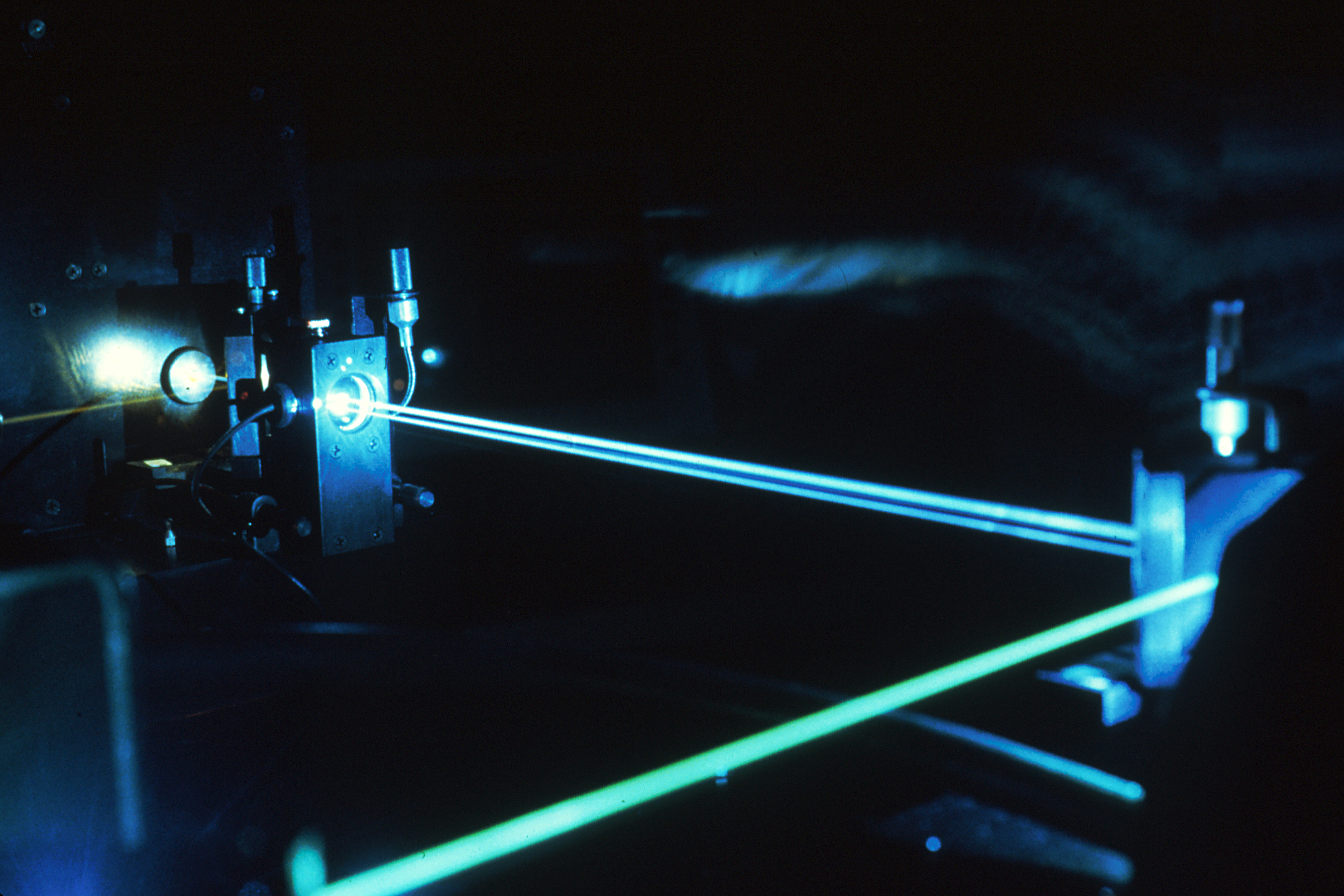 Title: Treatment: Photodynamic_Therapy: Argon-Ion Laser Description: Photodynamic therapy (PDT) is a procedure to treat cancer. Patients are injected with a photosensitizer which is a light sensitive drug selectively retained by cancer cells. When exposed to laser light, the photosensitizer in the cancer cells produces a toxic reaction which destroys the tumor. This photo shows an argon-ion laser, the first component of the argon pumped-dye laser (630nm red). This argon-ion laser emits blue-green light at 488/514 nm, and is used to excite a dye in the second component, the dye laser head, where the wavelength is changed to 630nm red. Different photosensitizers absorb light at different wavelengths. Some absorb light most efficiently in the blue light region of the spectrum around 400 nanometers(nm) with lesser absorption in the green and red light range. However, red light at 630 nm penetrates deeper into the tumor tissue (3-8 mm) than green or blue light. For this reason, the majority of PDT work has used 630 nm light. See artwork: GA-17. Subjects (names): Topics/Categories: Treatment -- Photodynamic Therapy Type: Color Slide Source: National Cancer Institute Author: Unknown photographer/artist AV Number: AV-8700-3896 Date Created: 1987 Date Added: 1/1/2001 Reuse Restrictions: None - This image is in the public domain and can be freely reused. Please credit the source and/or author listed above.